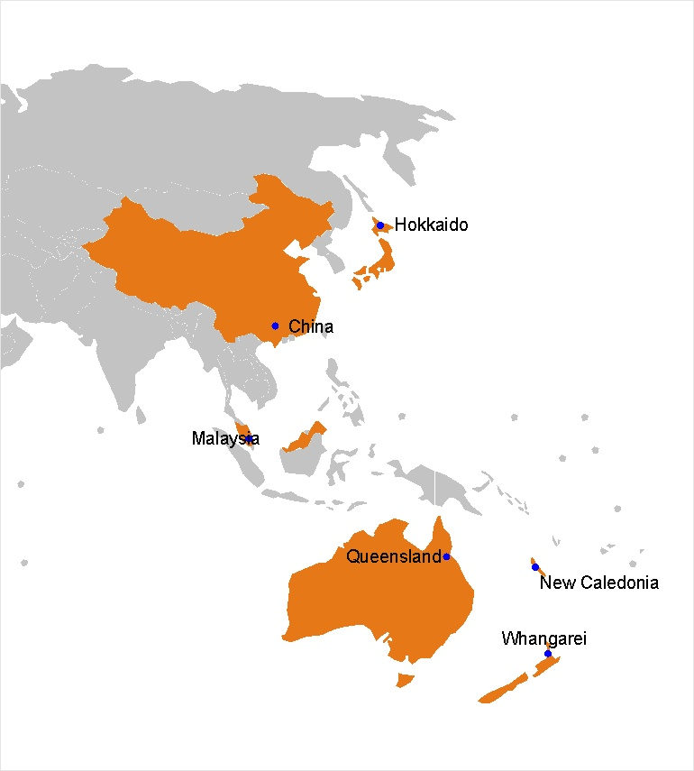 Map of Asia Pacific Championship Rally